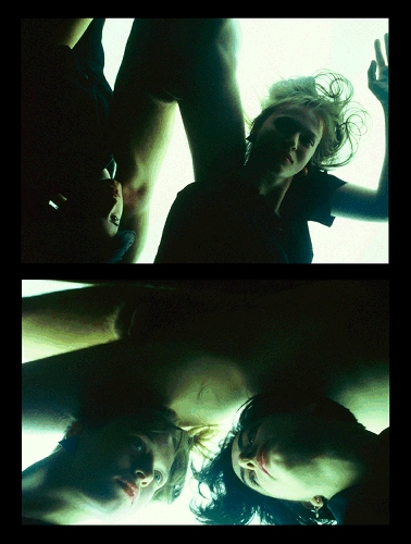 One of Alberto Terrile's early experiments.